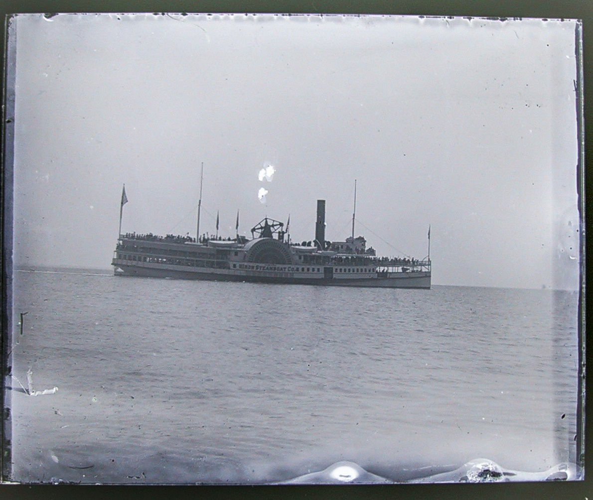 Iron Steamboat Co steamer, from a glass plate negative